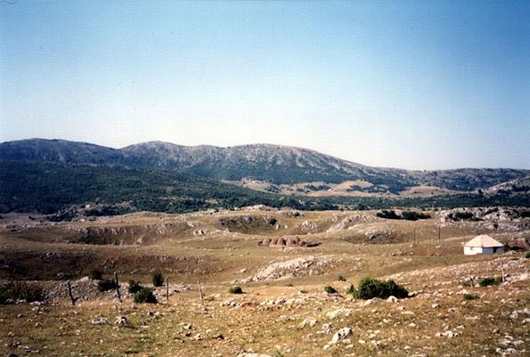 Pester field